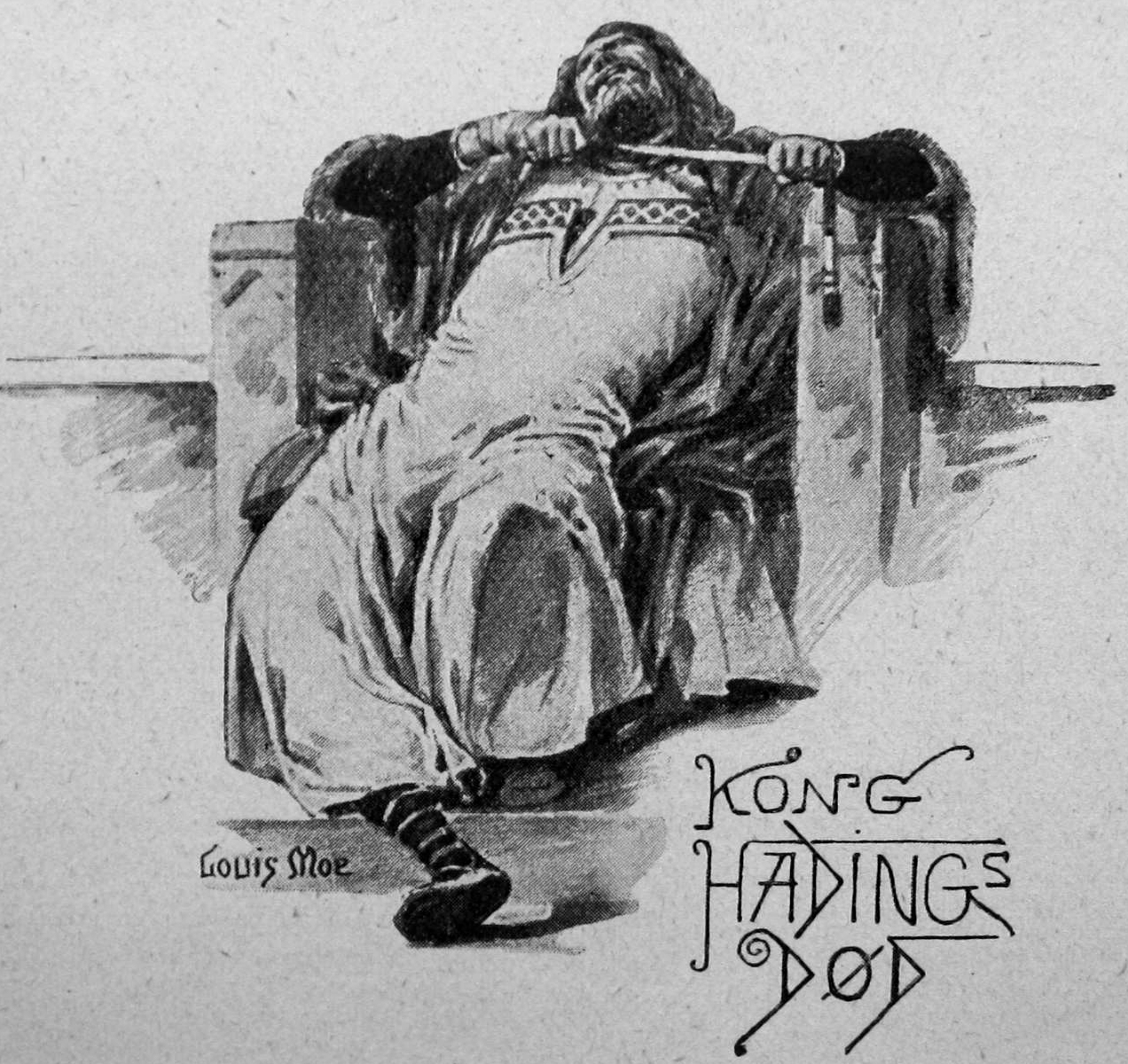 Kong Hadings Død. The scene is described in Gesta Danorum in the following way: "Hadding, when he heard this, wished to pay like thanks to his worshipper, and, not enduring to survive his death, hanged himself in sight of the whole people." Elton's translation